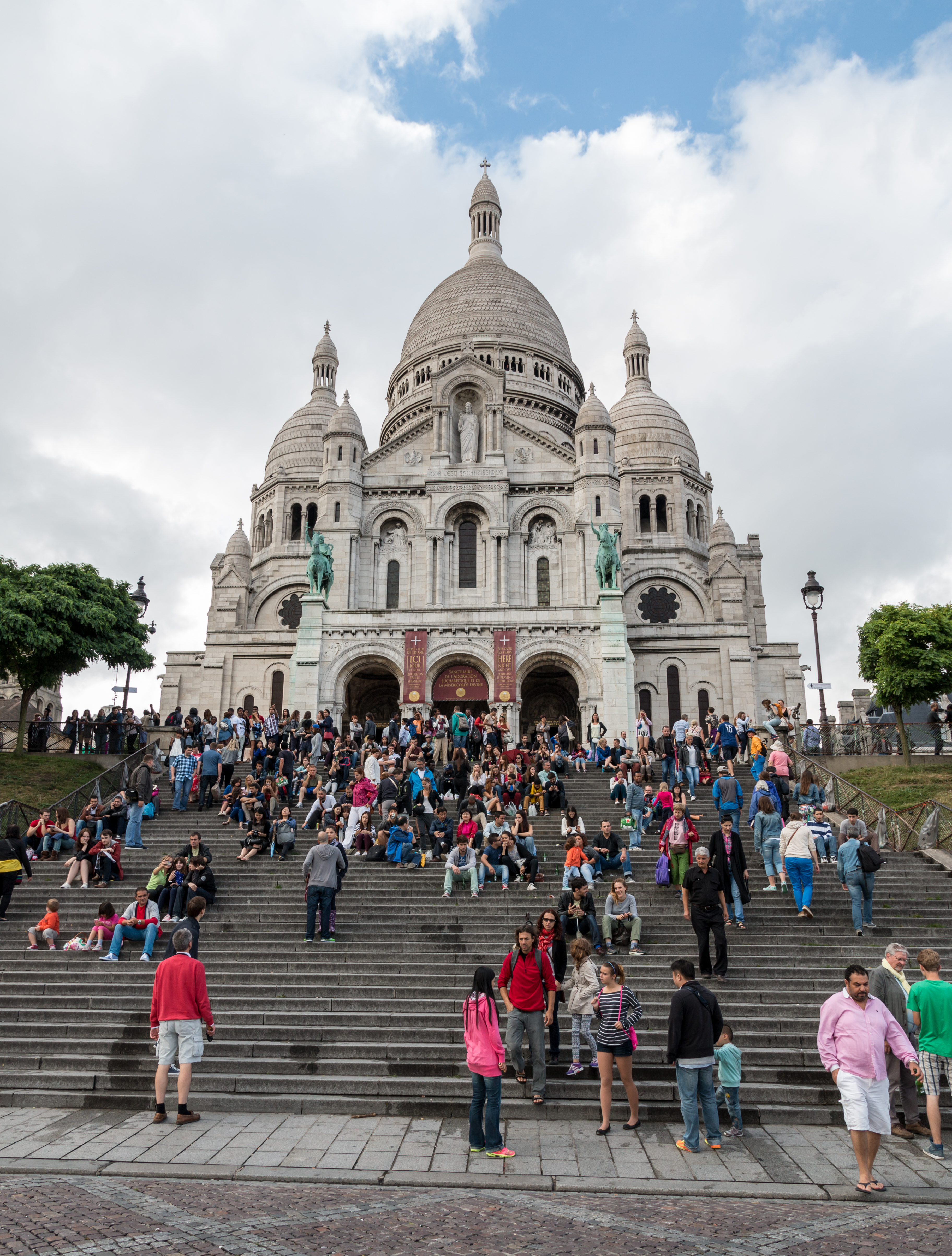 Sacré-Cœur de Montmartre, Paris, France